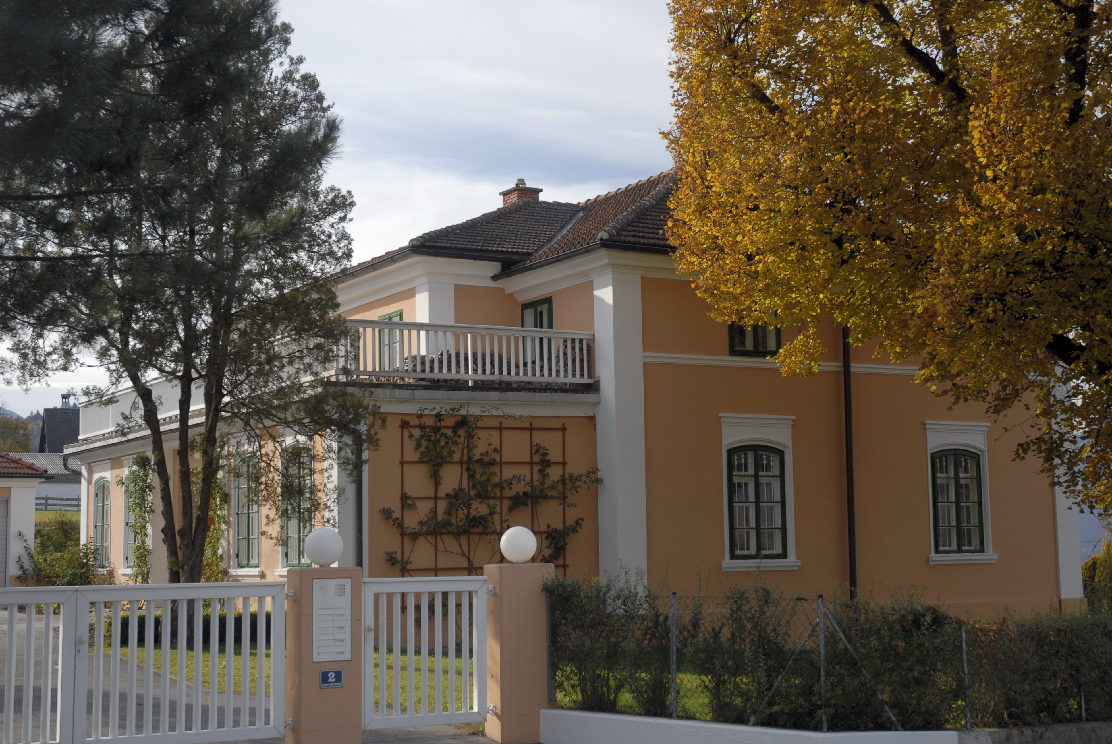 Aldrans, Villa Rosenegg, Innsbrucker Straße 2 This media shows the remarkable cultural object in the Austrian state of Tyrol listed by the Tyrolean Art Cadastre with the ID 54990. (on tirisMaps, pdf, more images on Commons, Wikidata)